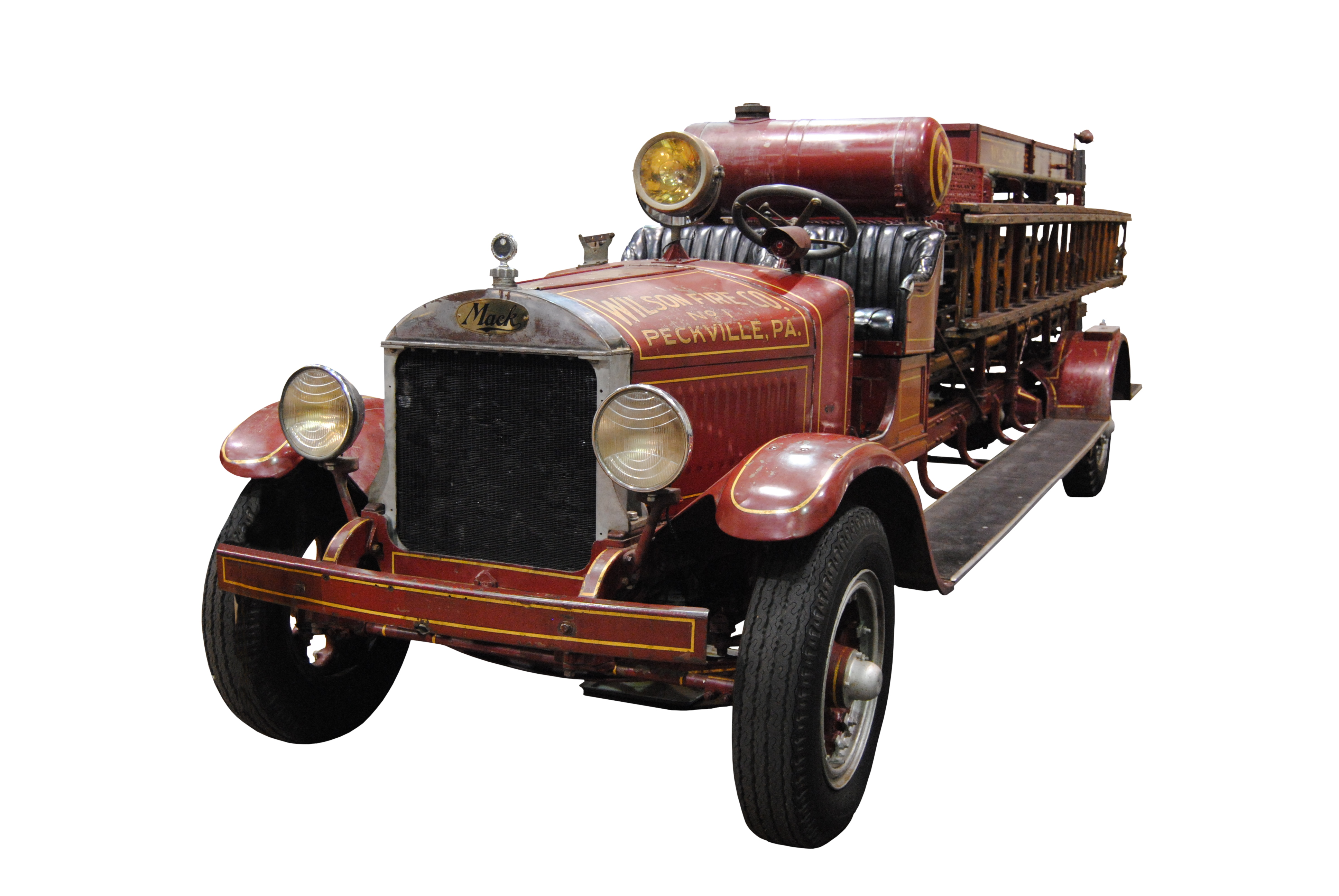 Mack Truck Historical Museum, Allentown, Pennsylvania